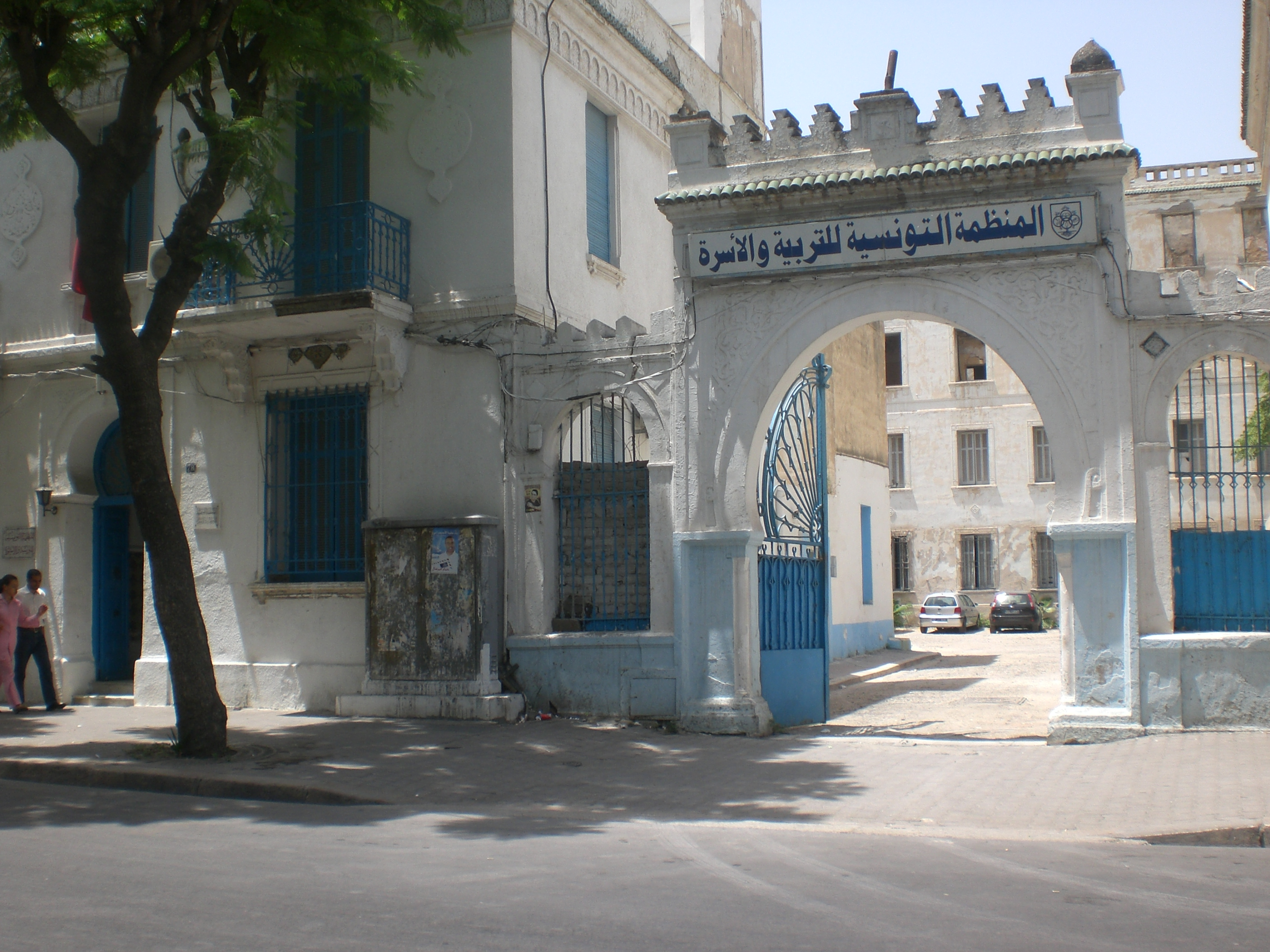 The headquarter of the Organisation Tunisienne de l'Education et de la Famille